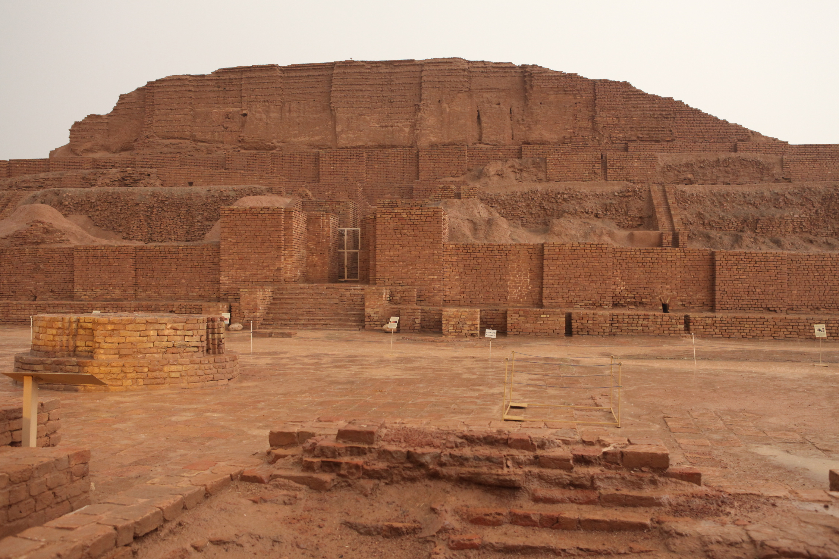 Choqa Zanbil, Ziggurat, Dur Untash, 13th century BC